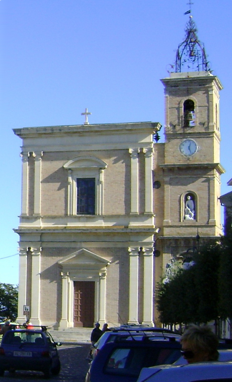 The church of St. Rocco to Atessa